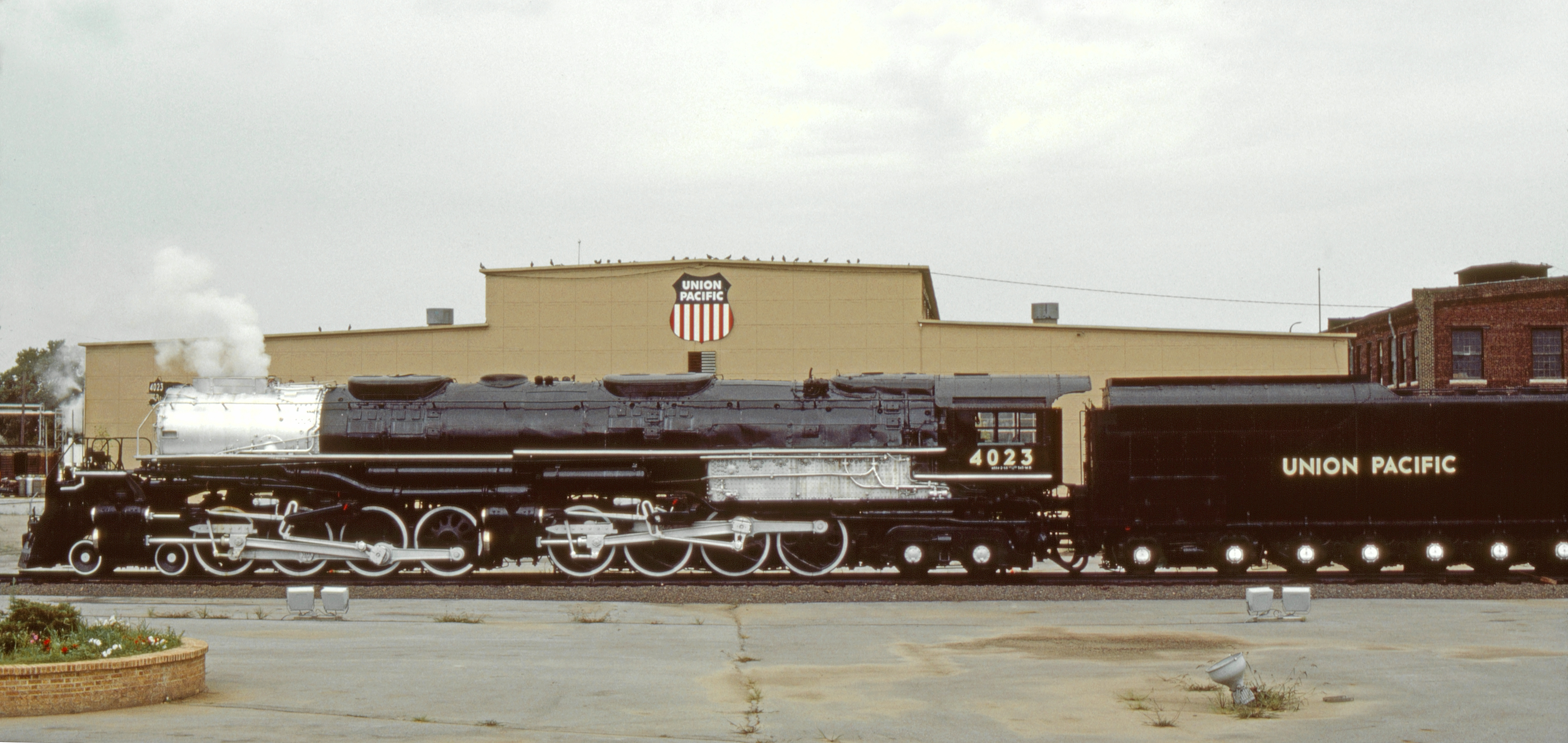 Big Boy 4023 displayed at Union Pacific's Omaha shops.